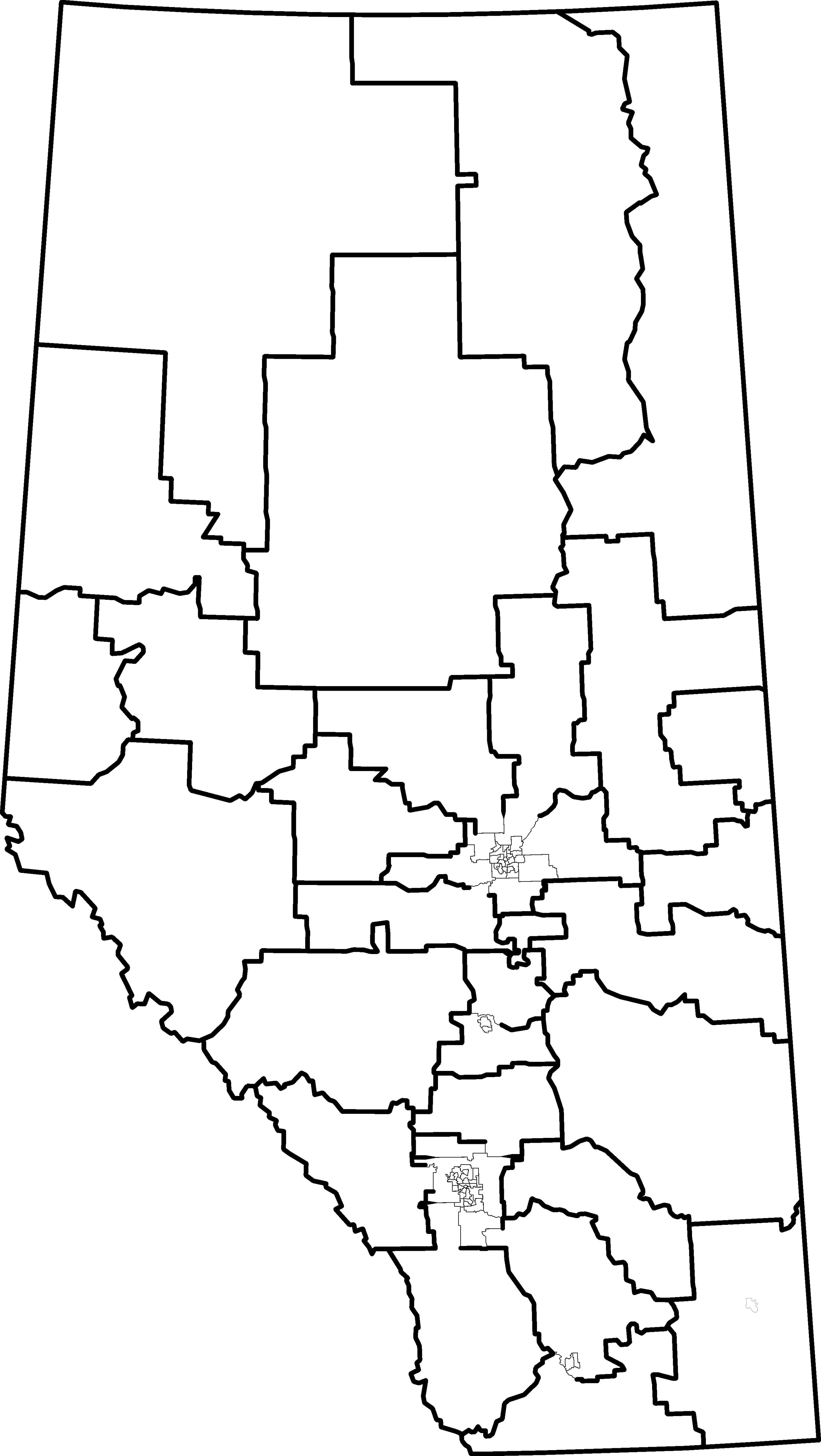 A map of all 87 Alberta provincial electoral districts, effective 2010.